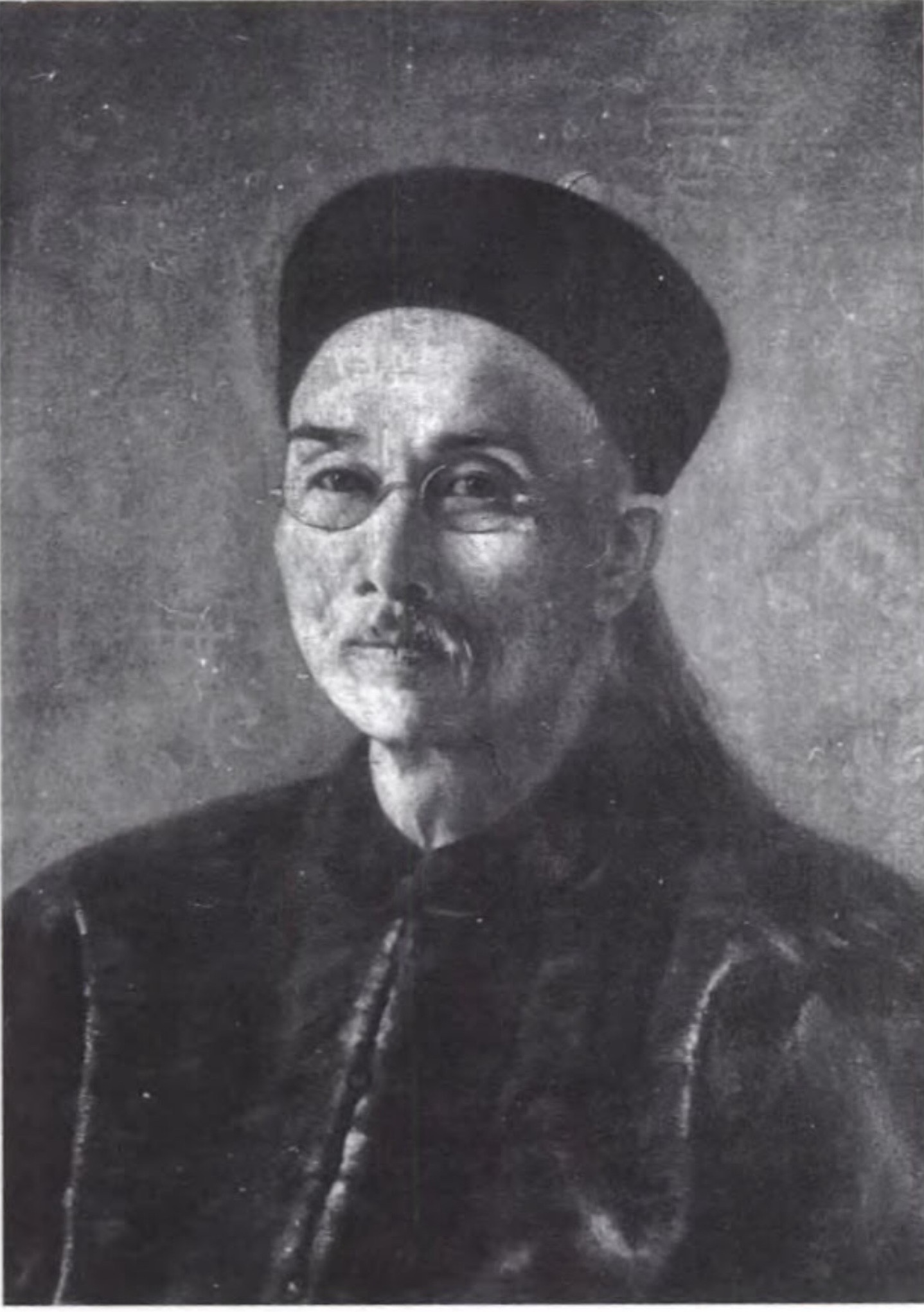 Chun Afong (1825-1906), Chinese Hawaiian businessman and politician. He came to Hawaii in 1849 and became Hawaii's first Chinsese millionaire. Painting by Hubert Vos done in Macao in 1898.